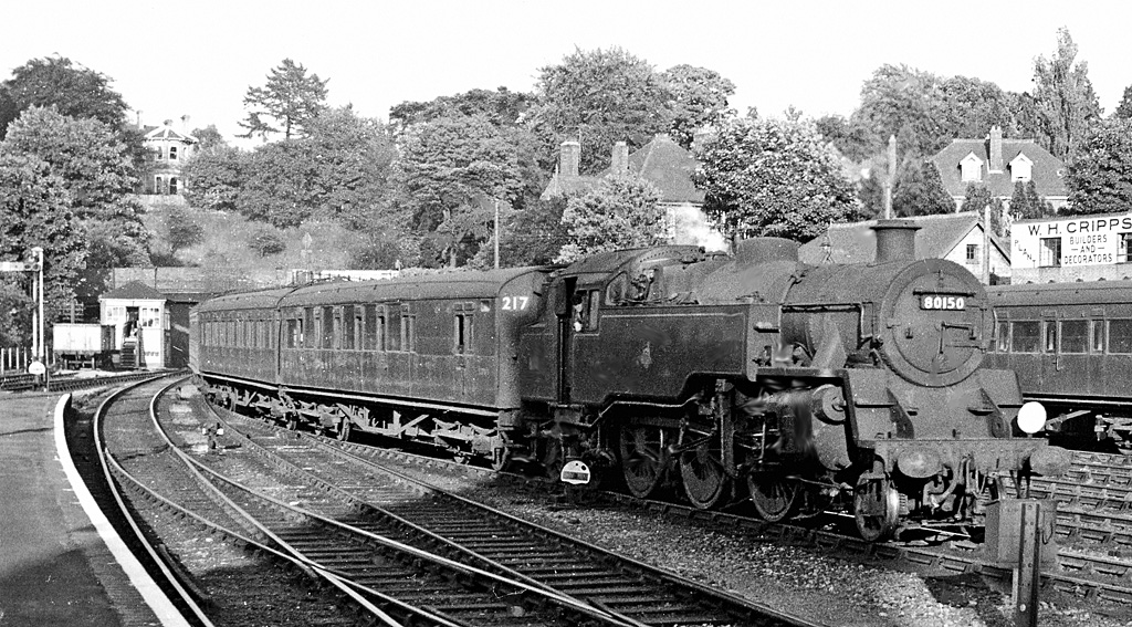 Tonbridge - Brighton train entering Tunbridge Wells West Station. View eastward, towards Tunbridge Wells Central; ex-London, Brighton & South Coast line (from Grove Junction) to Groombridge, Eridge, Lewes and Brighton. The train is the 19.10 Tonbridge to Brighton, headed by BR Standard 4MT 2-6-4T No. 80150.